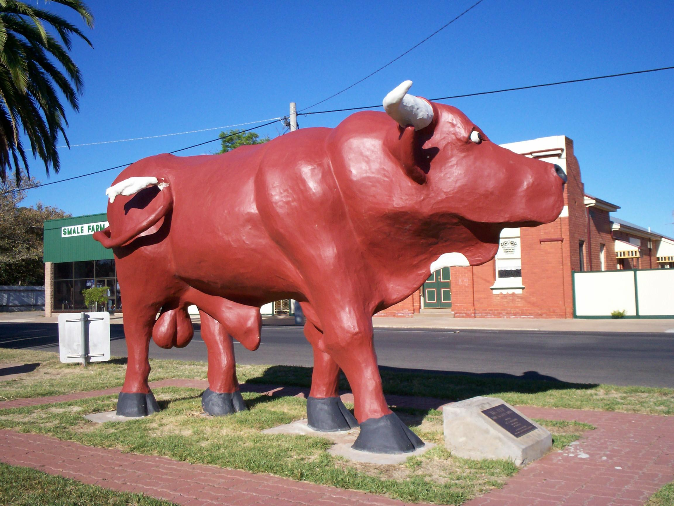 Mallee Bull, at Birchip, Victoria, Australia Photograph taken by myself.